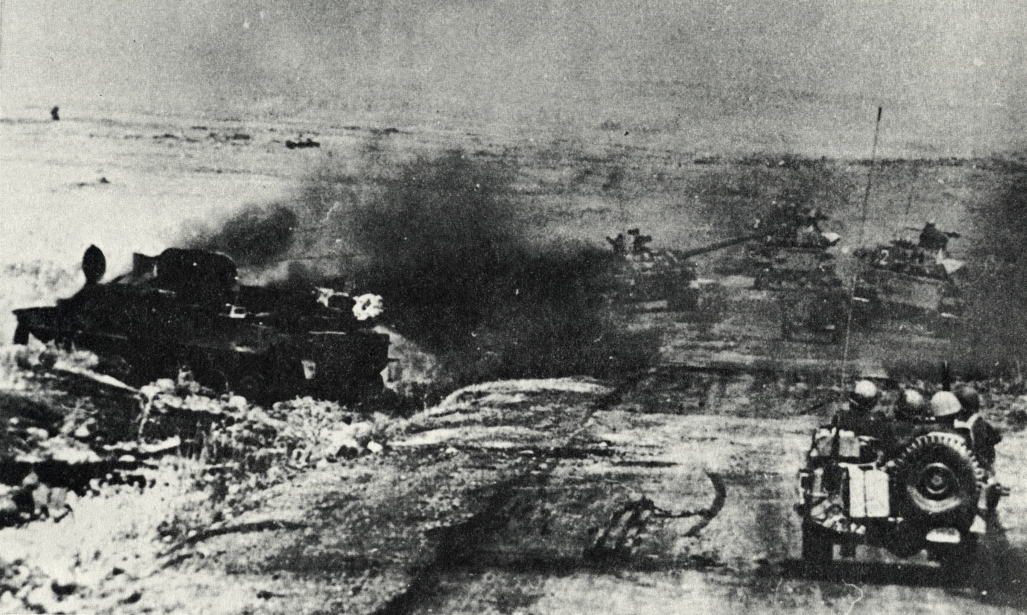 Fighting on the Golan Heights during the Arab-Israeli War. From the booklet "President Nixon and the Role of Intelligence in the 1973 Arab-Israeli War." For more information, visit